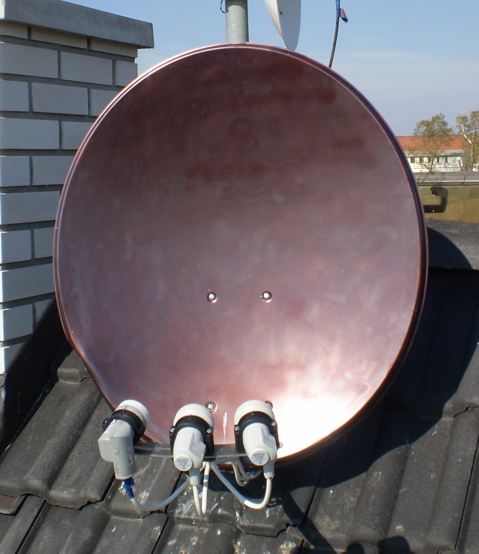 Home satellite dish with multifeed. In order to receive signals from three satellites, which are located at different points in the sky, this dish has three feed horns (white objects in front of dish) each of which is focused on a different satellite. Each satellite provides a different set of television channels, which are combined and made available by the set-top box.